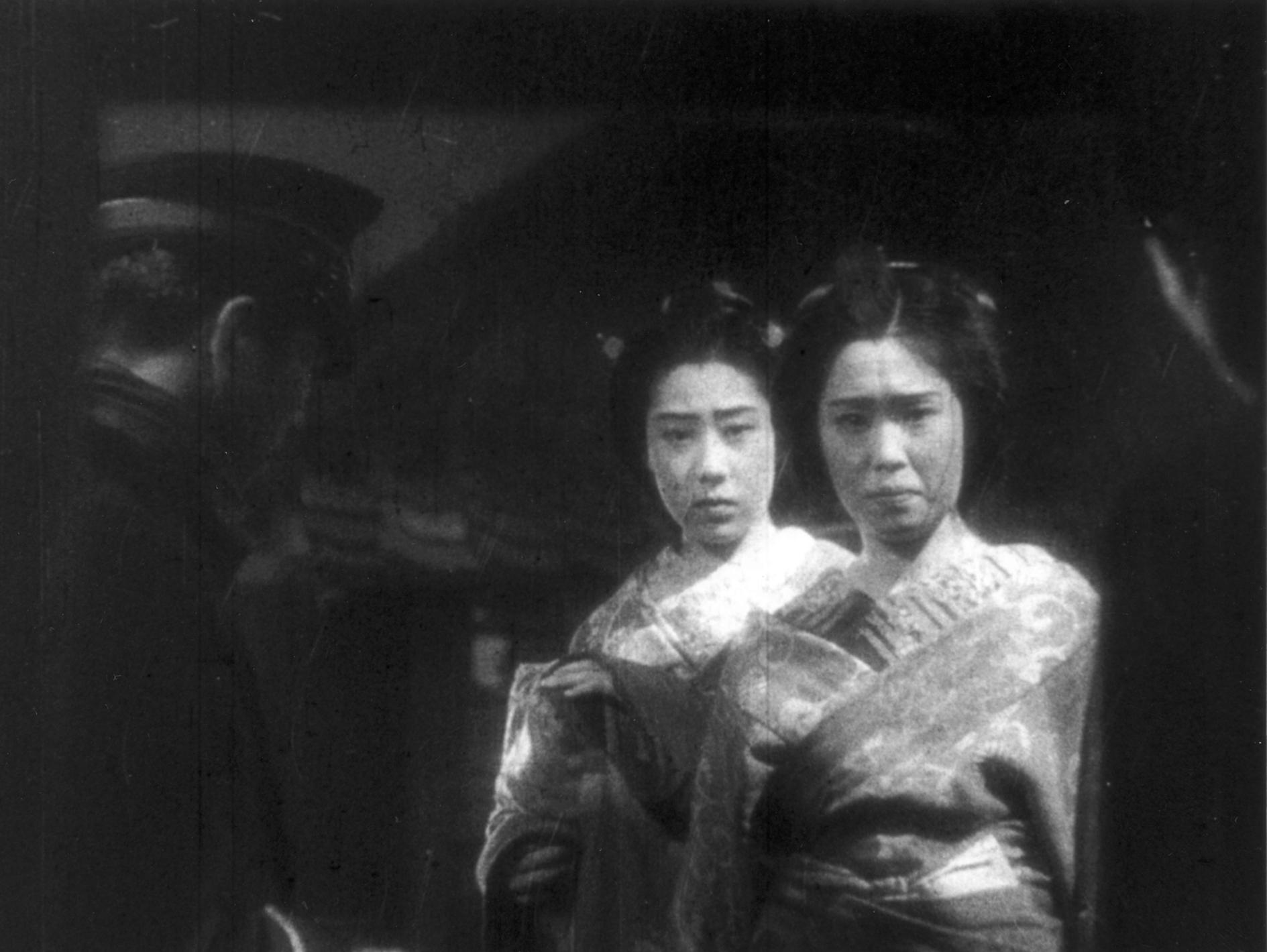 Isuzu Yamada and Komako Hara in Maria no Oyuki (マリヤのお雪) directed by Kenji Mizoguchi - 1935